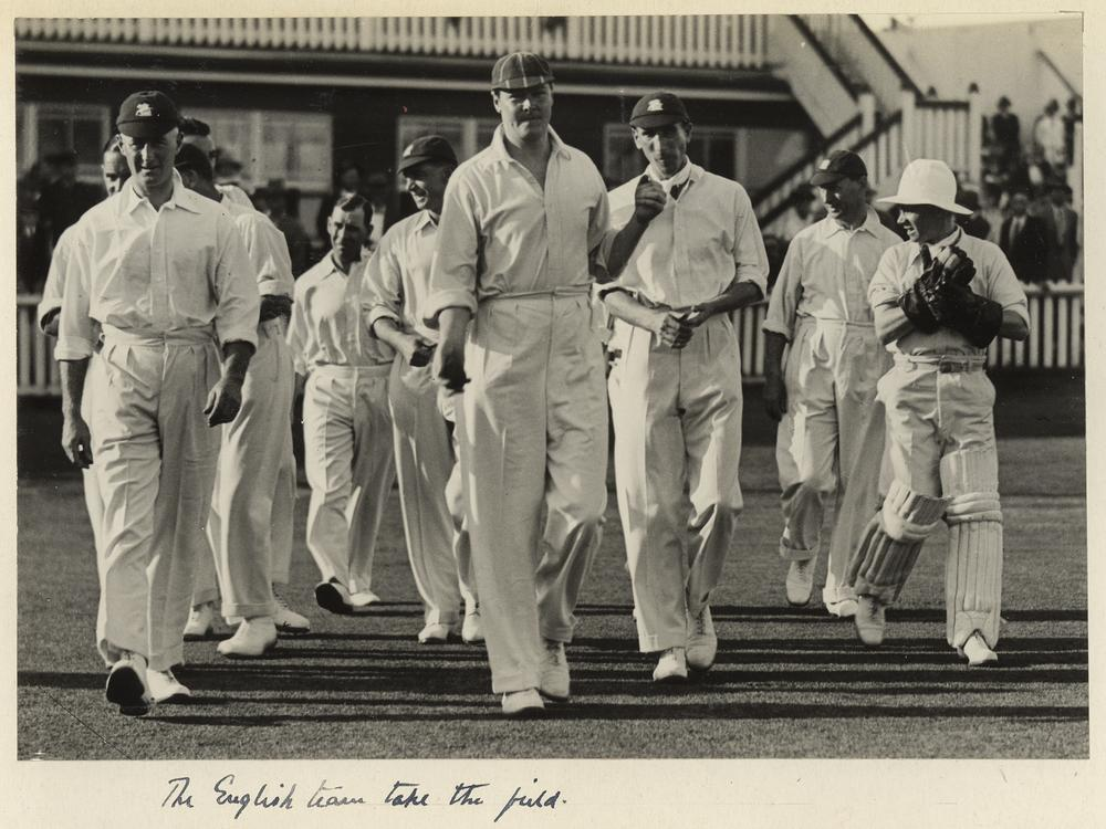 English cricket team at the test match held at the Exhibition Ground in Brisbane, 1928.